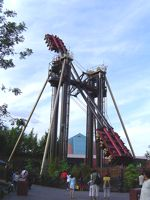 Taken of 21st July 2006